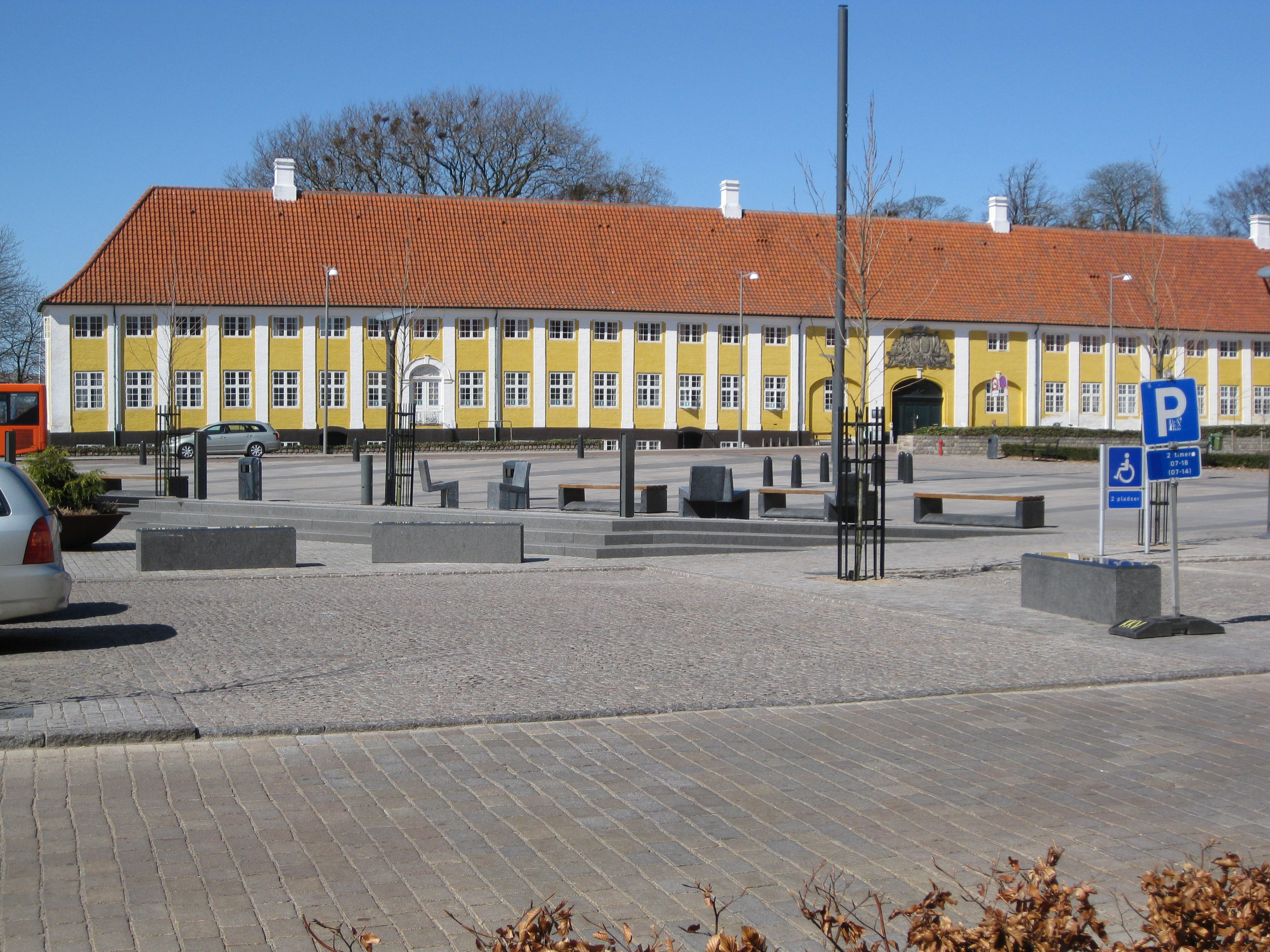 The former monastery "Kaalund Kloster" in the town Kalundborg. The town is located in West Zealand, Denmark.